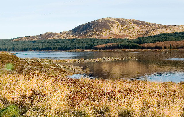 View of Black Craig from West of Loch Doon